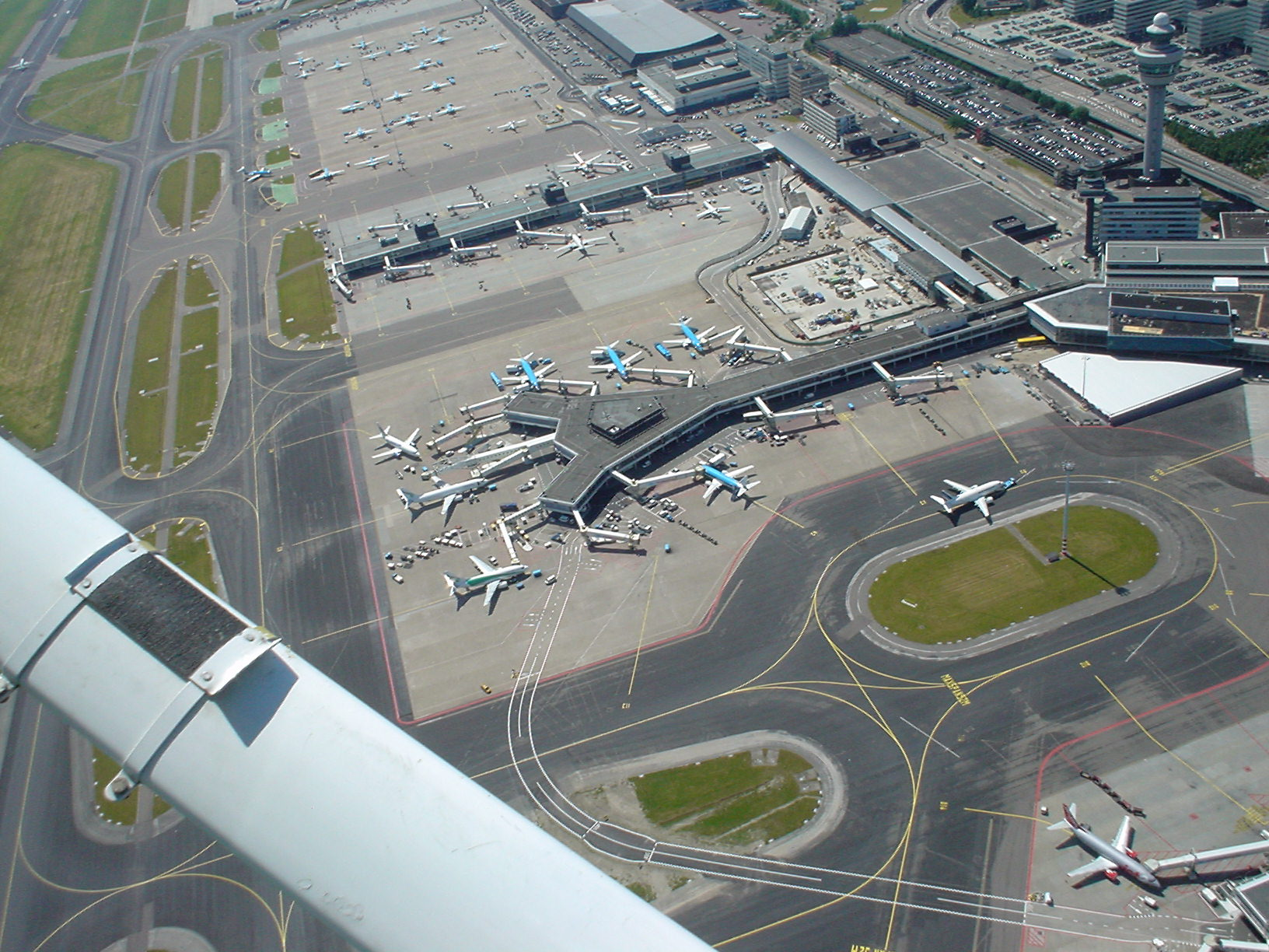 Aerial photographs of Schiphol Airport, The Netherlands